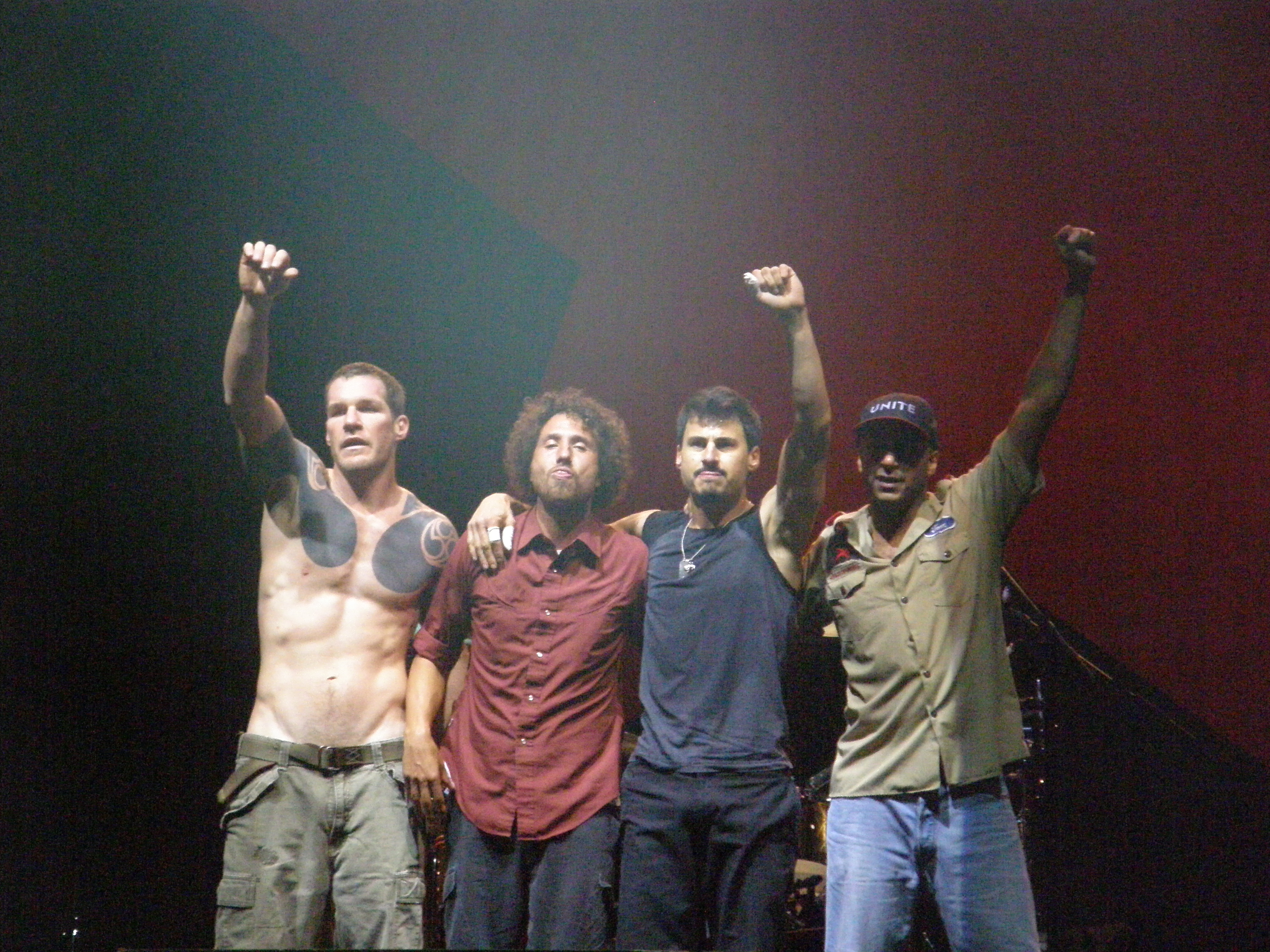 Rage Against The Machine End of set, before leaving stage Vegoose Music Festival